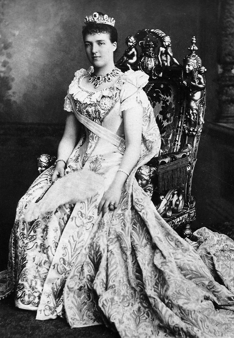 Rainha Amelia de Portugal